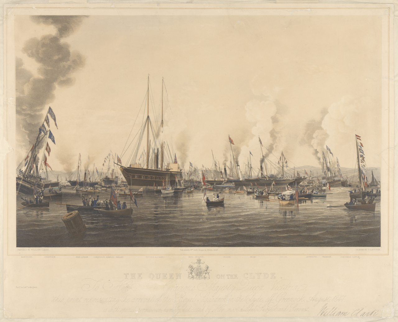 The Queen on the Clyde... the arrival of the Royal Squadron in the Clyde off Greenock, 17 August 1847... (Victoria and Albert) Hand-coloured. The Queen on the Clyde... the arrival of the Royal Squadron in the Clyde off Greenock, August 1847... (Victoria and Albert) Hercules (paddle steamer) built 1838; Chieftain (paddle steamer); Fire Queen (screw steamer); Conqueror; Admiral (sea going vessel); Garland (packet - steamer from Dover); HMY Victoria and Albert (ship, 1843) (Royal yacht); Mars (river steamer, carrying the Greenock authorities); Scourge (Government steam sloop) - HMS Scourge (1844); Undine (packet - steamer); Fairy (packet - yacht - river steamer); Thetis (sea going vessel, carrying Provost Hastie, the Magistrates and authorities of Glasgow) river steamer - a new vessel; Sovereign (tender); Premier; Craignish Castle; (paddle steamer) built 1844 by Caird & Company for Glasgow Castle Steam Packet Co, Glasgow [1]